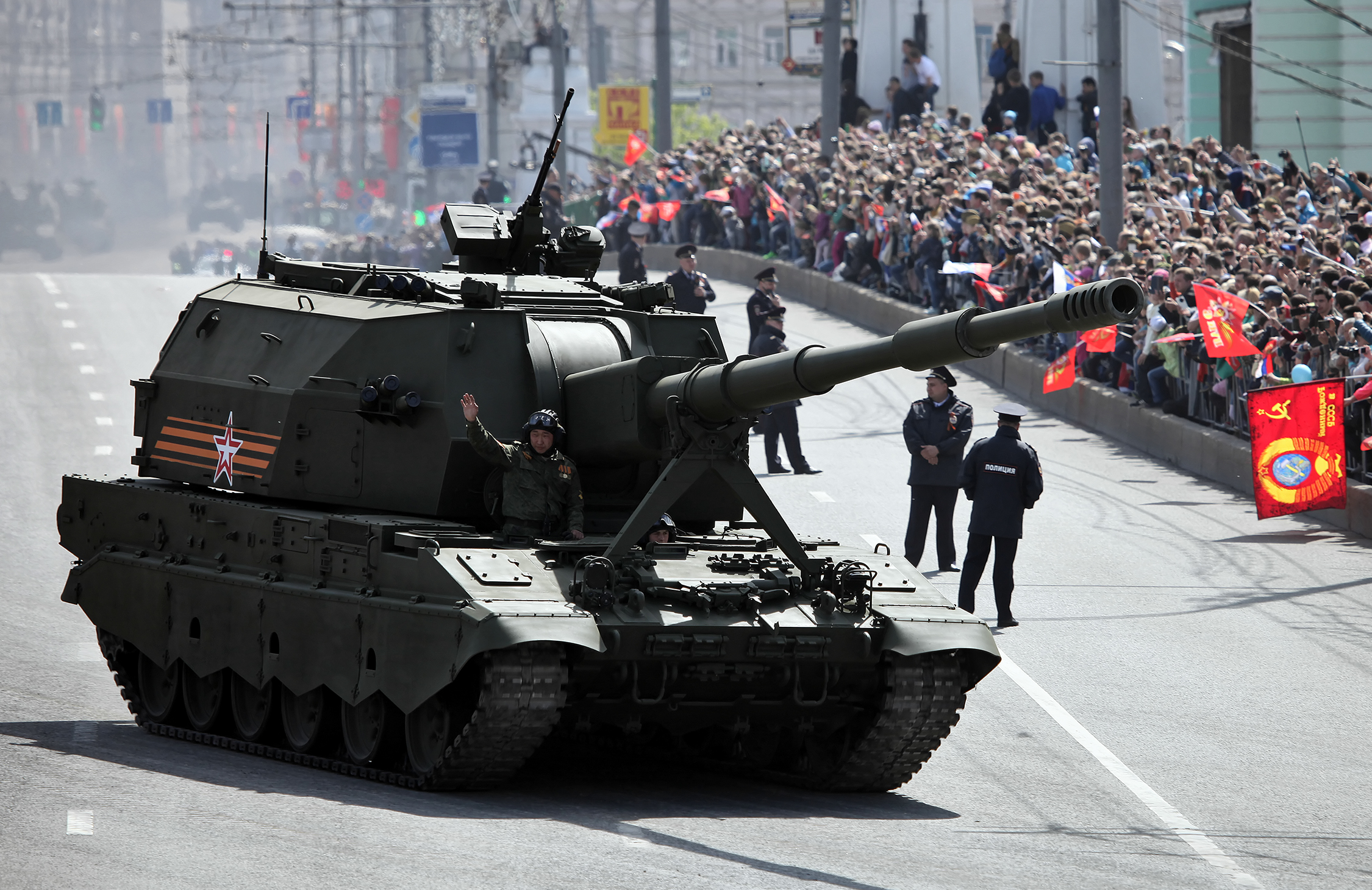 152mm self-propelled gun 2S35 Koalitsiya-SV (in the streets of Moscow on the way to or from the Red Square)